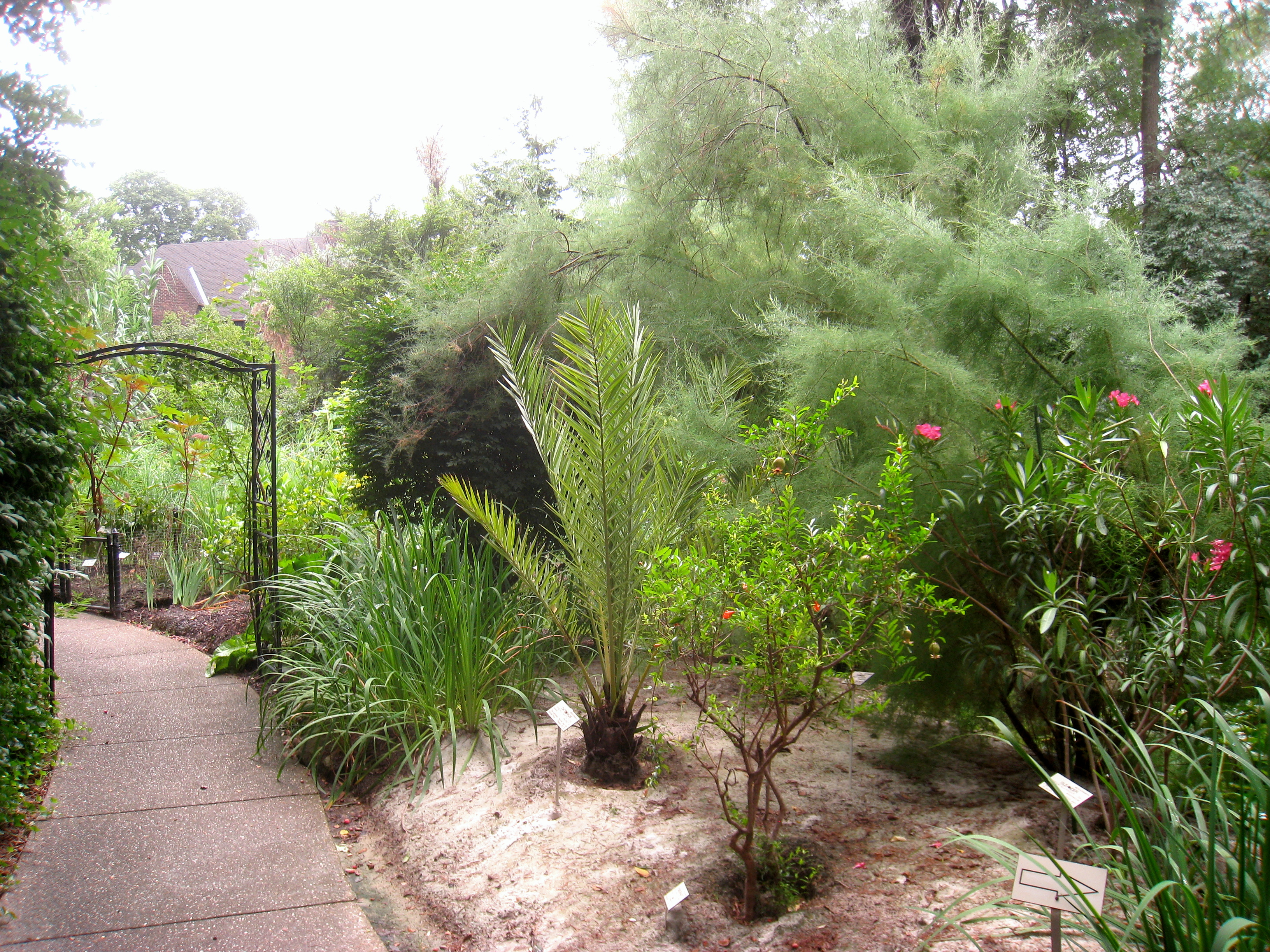 Rodef Shalom Biblical Botanical Garden, Pittsburgh, Pennsylvania, USA.